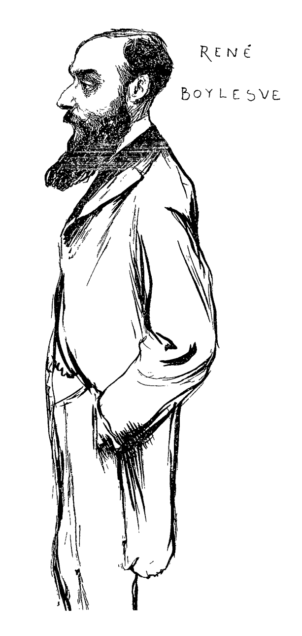 Portrait of French writer René Boylesve (1867-1926) by Jean Veber (1868-1928)